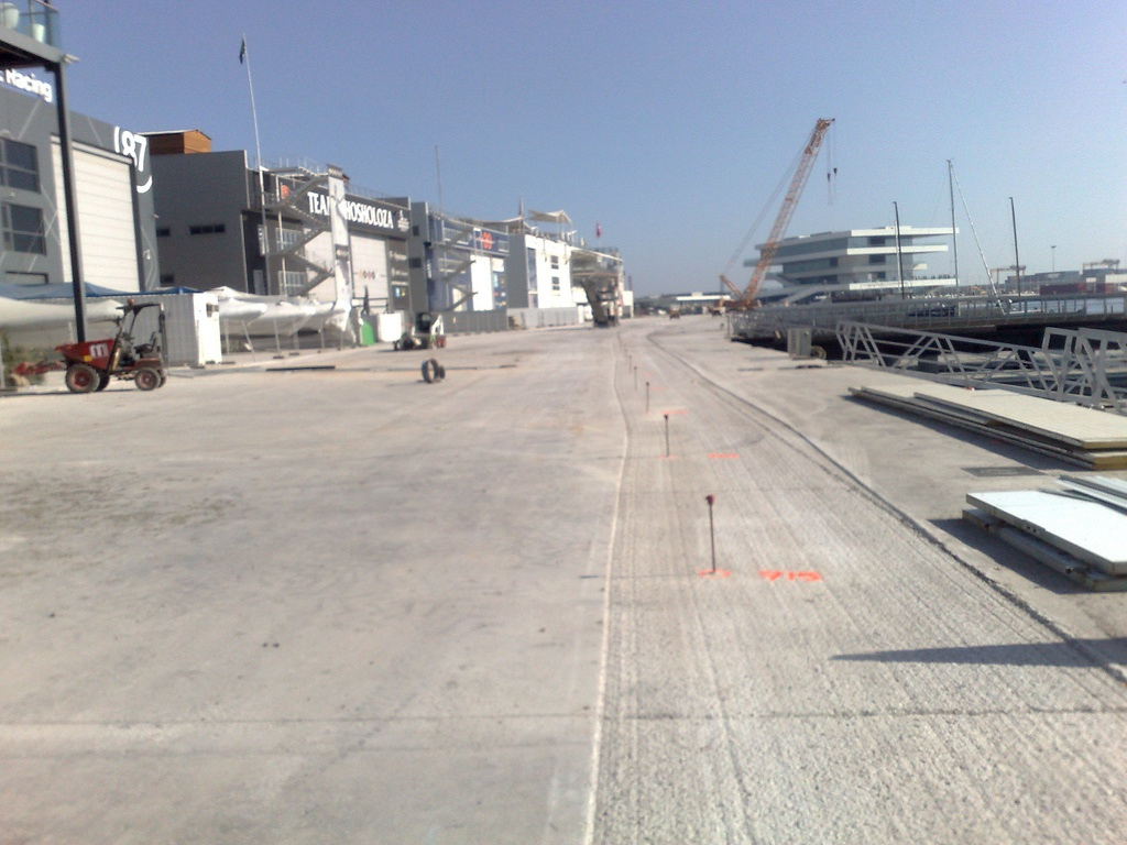 Construction of the Formula1 track at the Americas Cup Port In Valencia